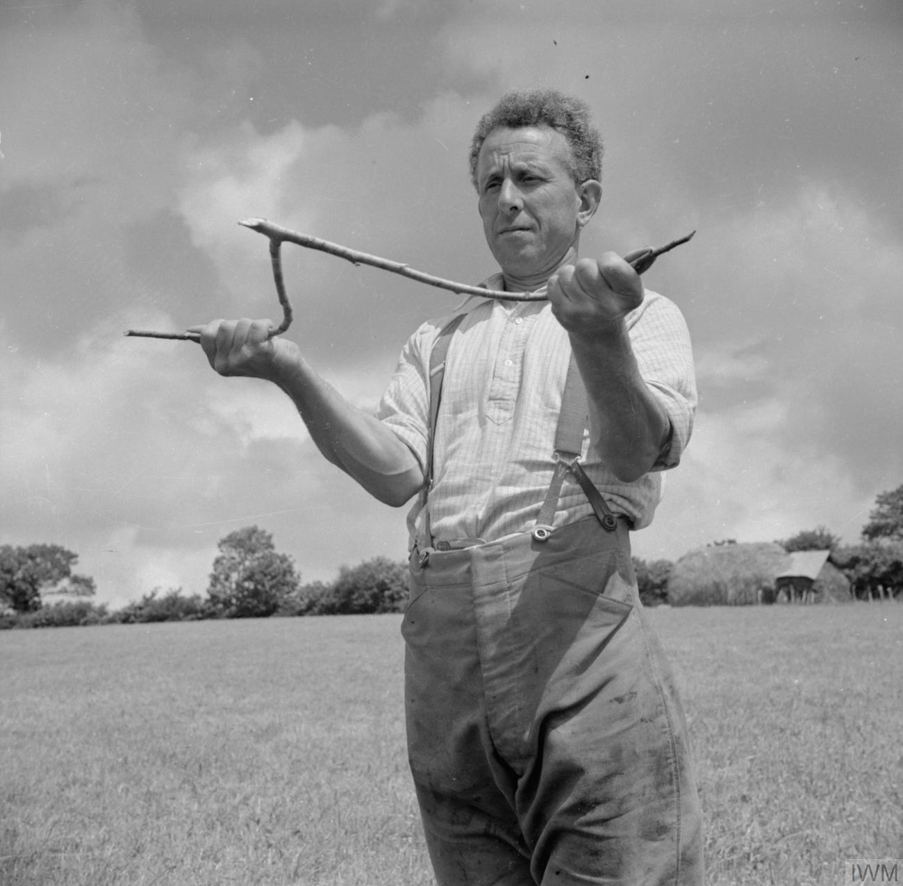 Agriculture in Britain- Life on George Casely's Farm, Devon, England, 1942 George Casely uses a hazel twig to find water on the land around his Devon farm. According to the original caption "Casely has the power of divining and has sunk a well in several of his pastures".